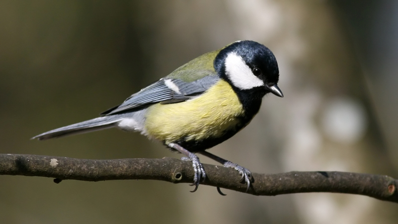 Great Tit (Parus major)